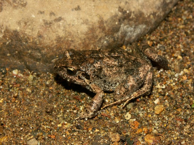 Arthroleptis palava